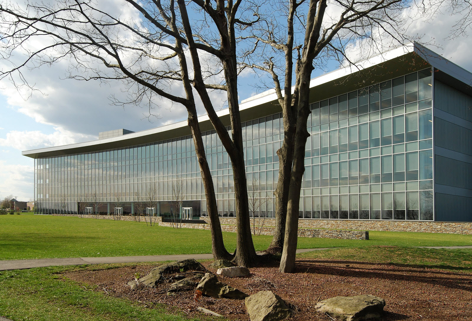 Meditech, Fall River, Massachusetts. Completed in 2008. (2010 photo)